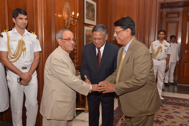 Fakhrul imam Mp with Pronob Mukharjee